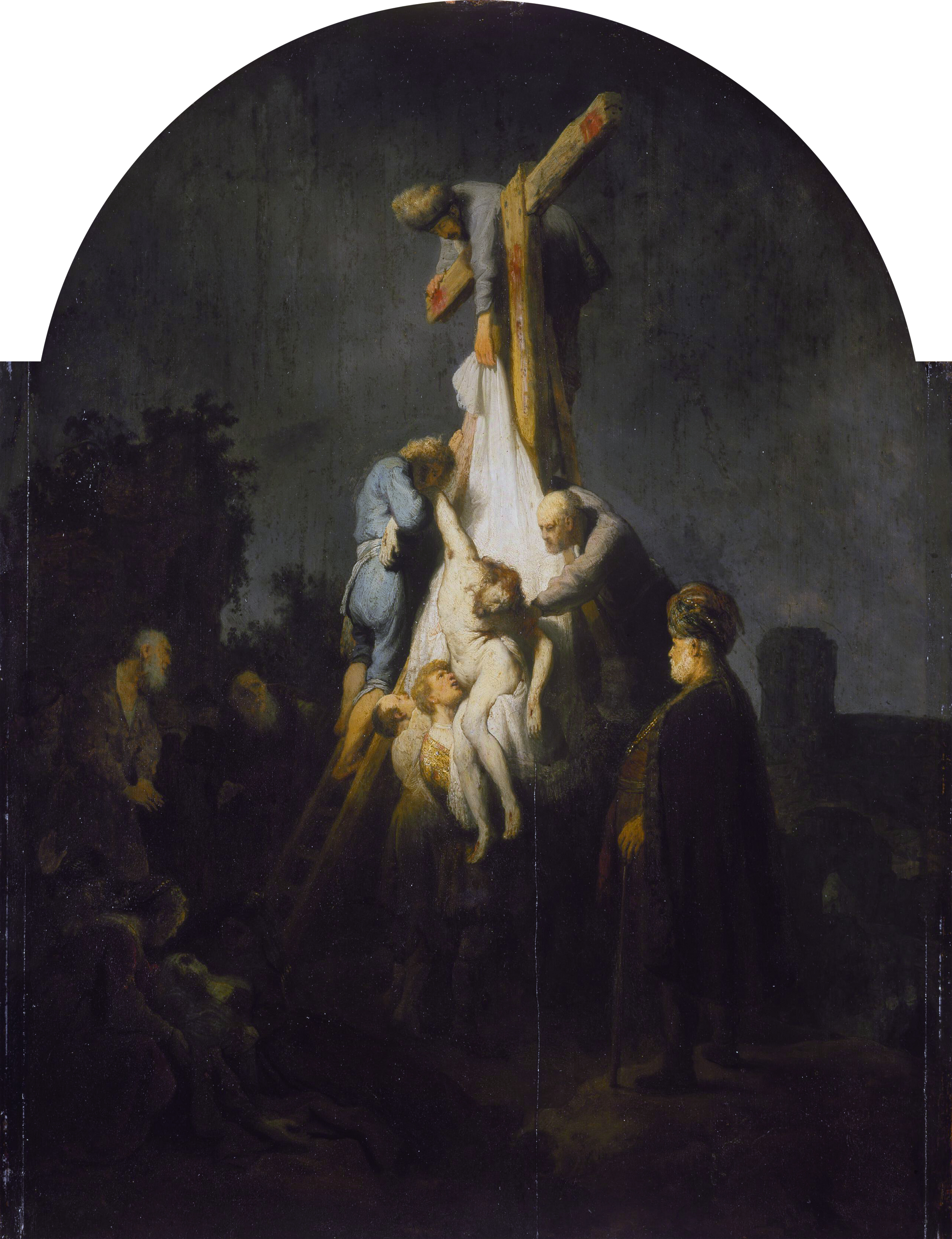 The Deposition. Part of Rembrandt's Passion Cycle for Frederick Henry, Prince of Orange.